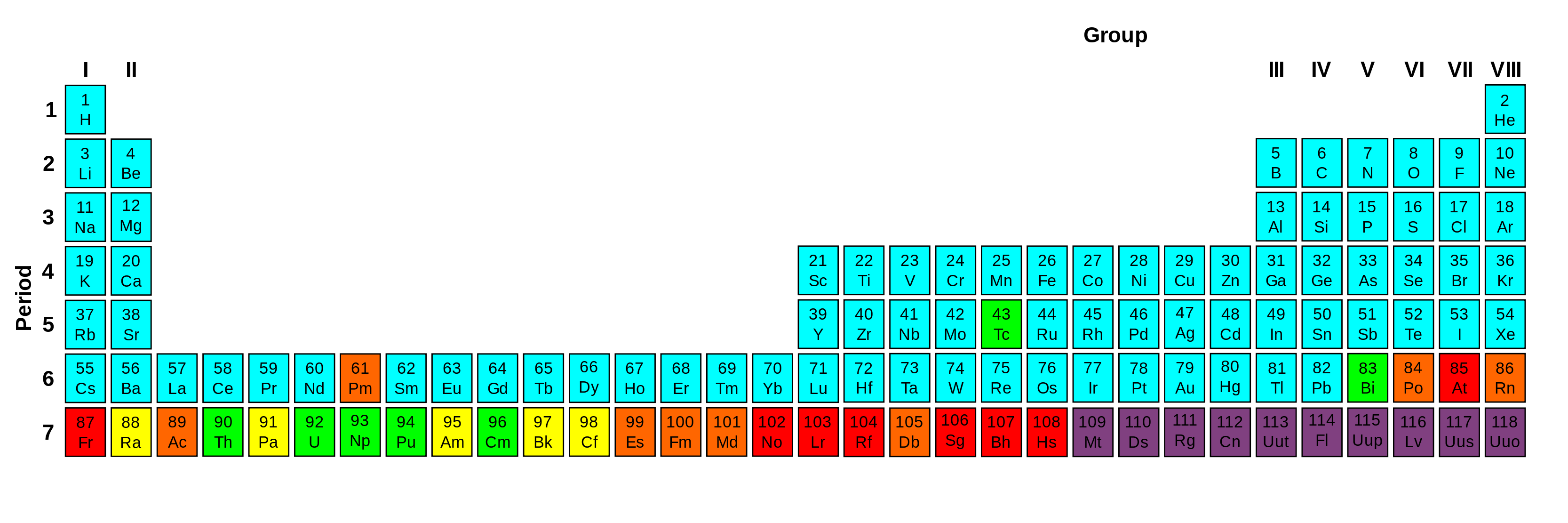 Periodic table with elements colored according to the half-life of their most stable isotope. 32-column format is helpful in showing stability pattern. Elements that contain at least one stable isotope. Radioactive elements: the most stable isotope is very long-lived, with half-life of over four million years. Radioactive elements: the most stable isotope has half-life between 800 and 34.000 years. Radioactive elements: the most stable isotope has half-life between one day and 103 years. Highly radioactive elements: the most stable isotope has half-life between several minutes and one day. Extremely radioactive elements: the most stable isotope has half-life less than several minutes. Very little is known about these elements due to their extreme instability and radioactivity. Note that this table only addresses the most stable isotope of each element. Therefore it would be erroneous to conclude that all naturally occurring elements from hydrogen through lead are non-radioactive. For example, if you hold a geiger counter up to a banana, you will detect radioactivity because of the potassium isotope 40K, which is also the most common radioisotope in the human body.